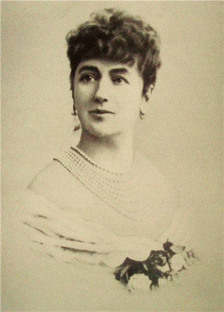 Marie-Clotilde-Elisabeth Louise de Riquet